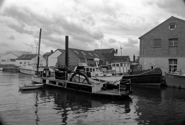 Bertha being demonstrated on the Exeter Canal Basin A birthday treat for me, the oldest steam powered vessel in the country being demonstrated. Myself and colleague were taken on board by rowing boat and my colleague demonstrated that transferring from rowing boat to dredger was as easy as falling off - well, a rowing boat. Fortunately both he and his equipment survived the experience.